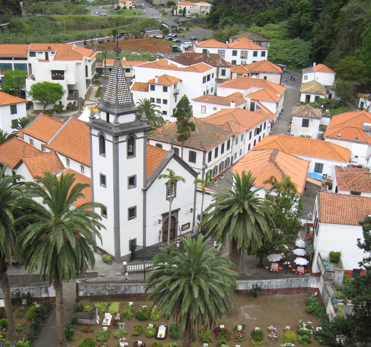 Village of Sao Vicente, Madeira.